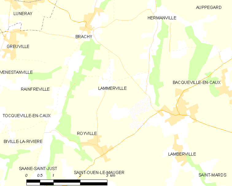 Map of French municipality Lammerville